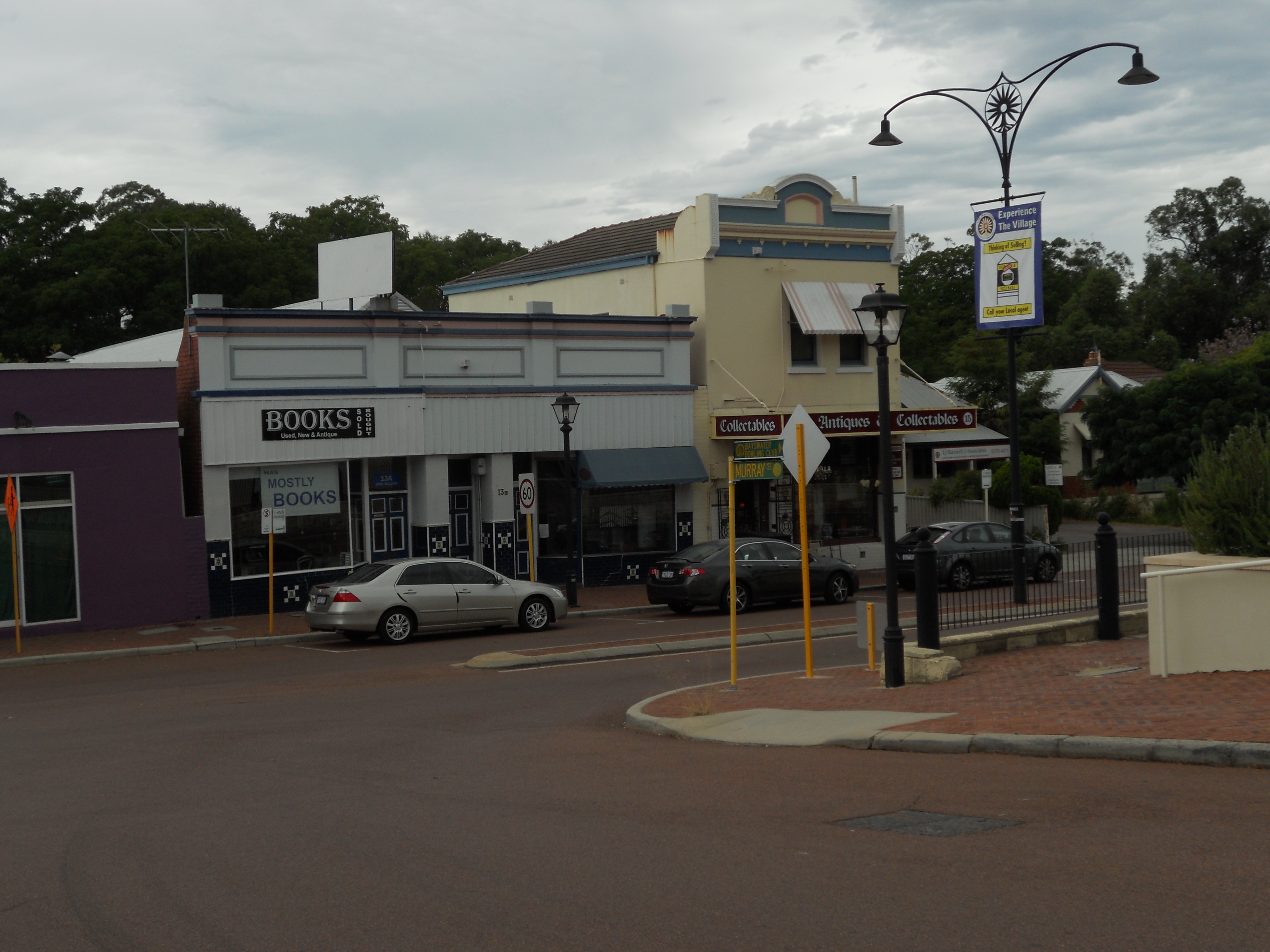 Bayswater, Western Australia